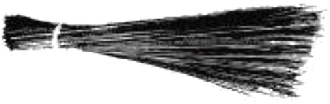 Election Symbol of Aam Admi Party